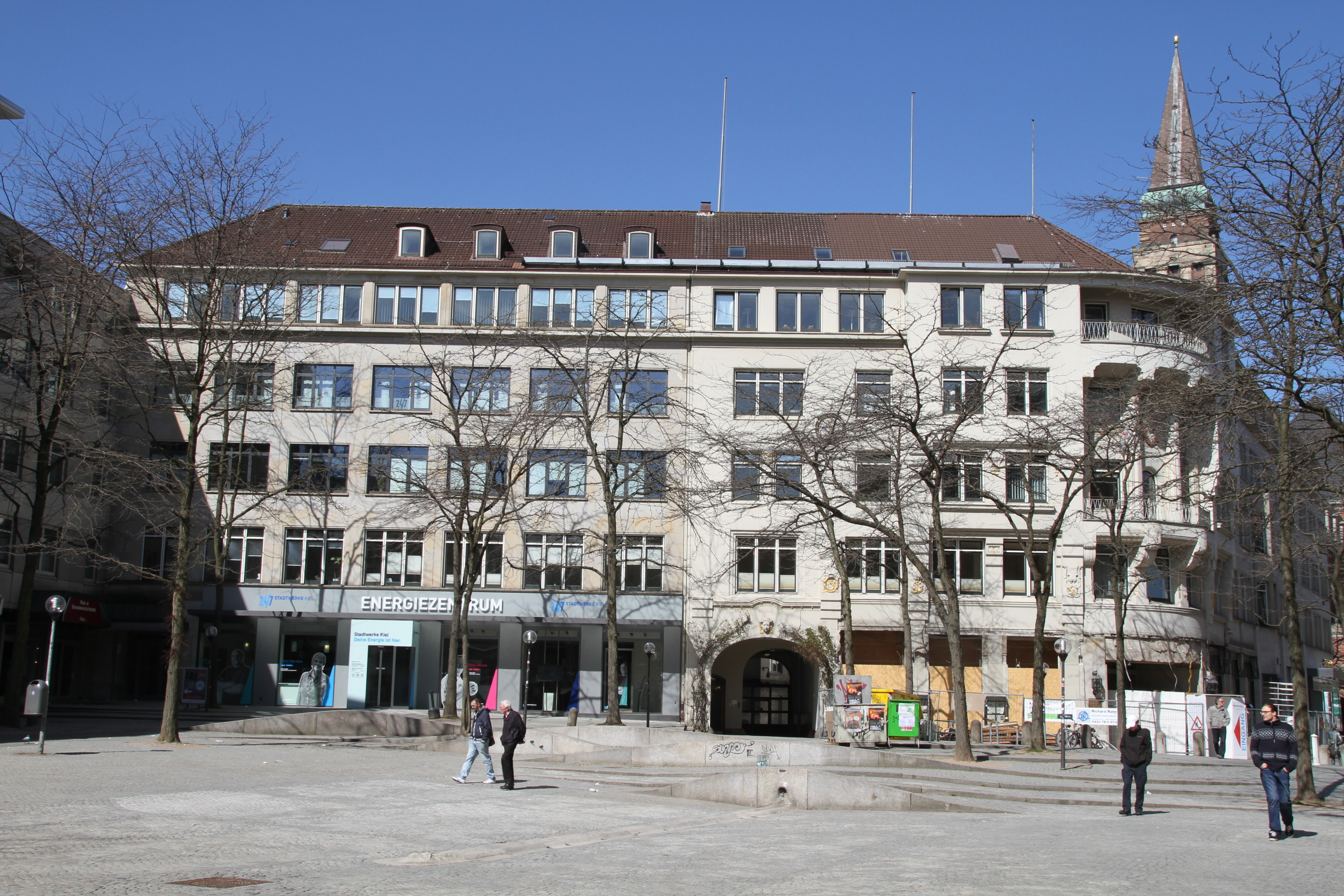 Street image from downtown Kiel, north Germany. This is the City Utility Company of Kiel.